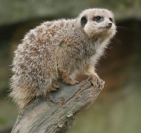 Newquay Zoo